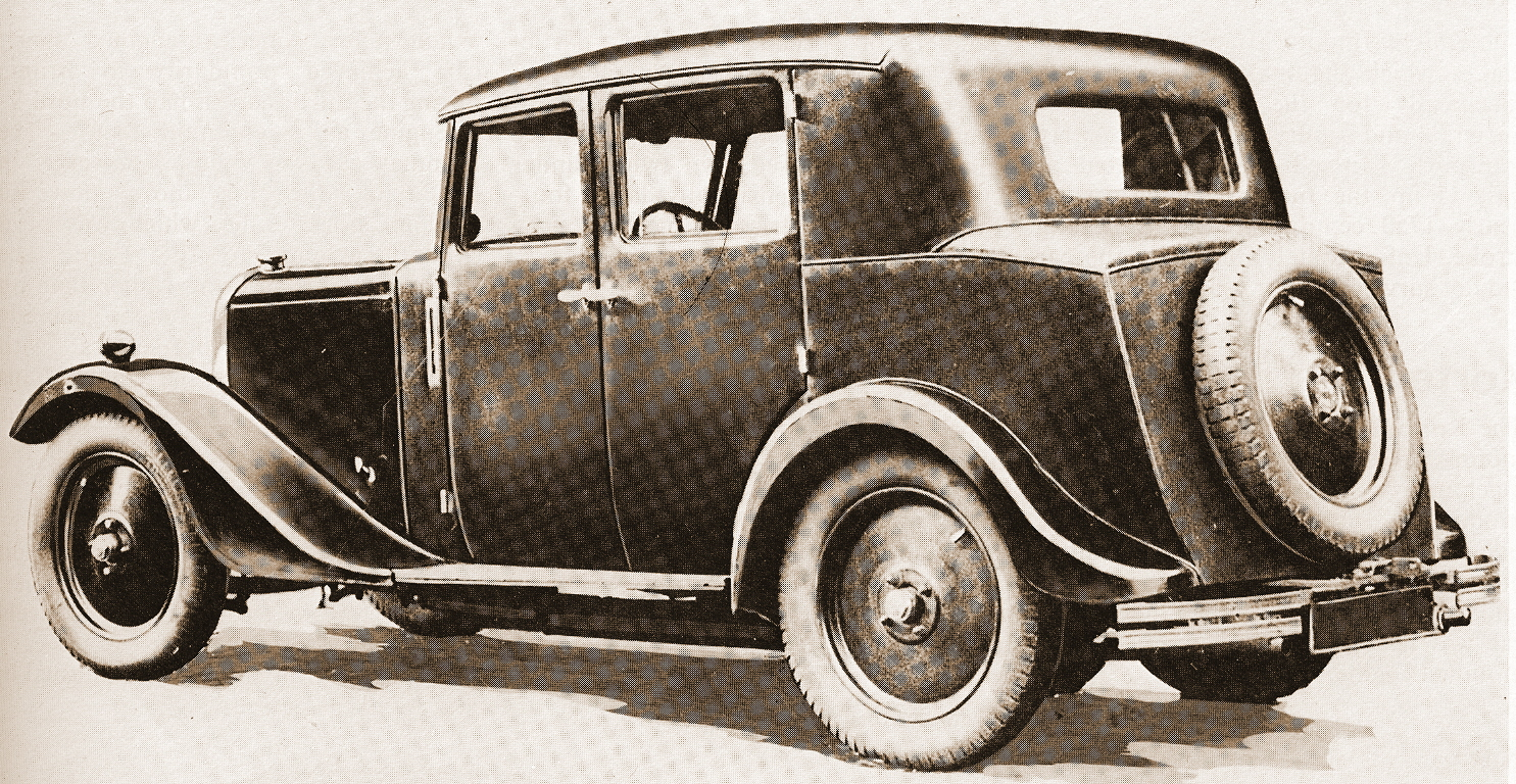 1935 Jewel